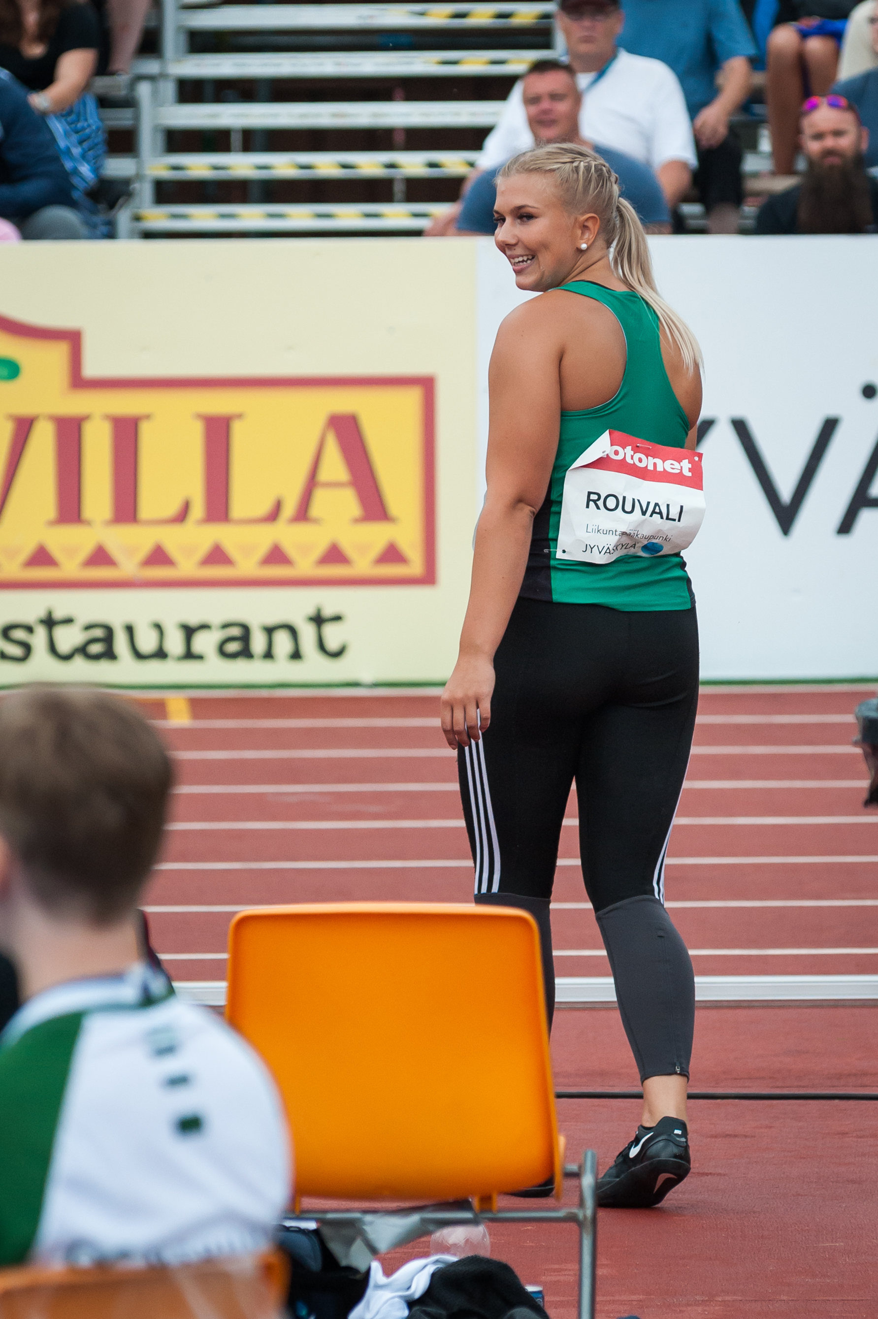 Women's shot put competition at the 2018 Kalevan Kisat, the Finnish championships in athletics, in Jyväskylä, Finland.